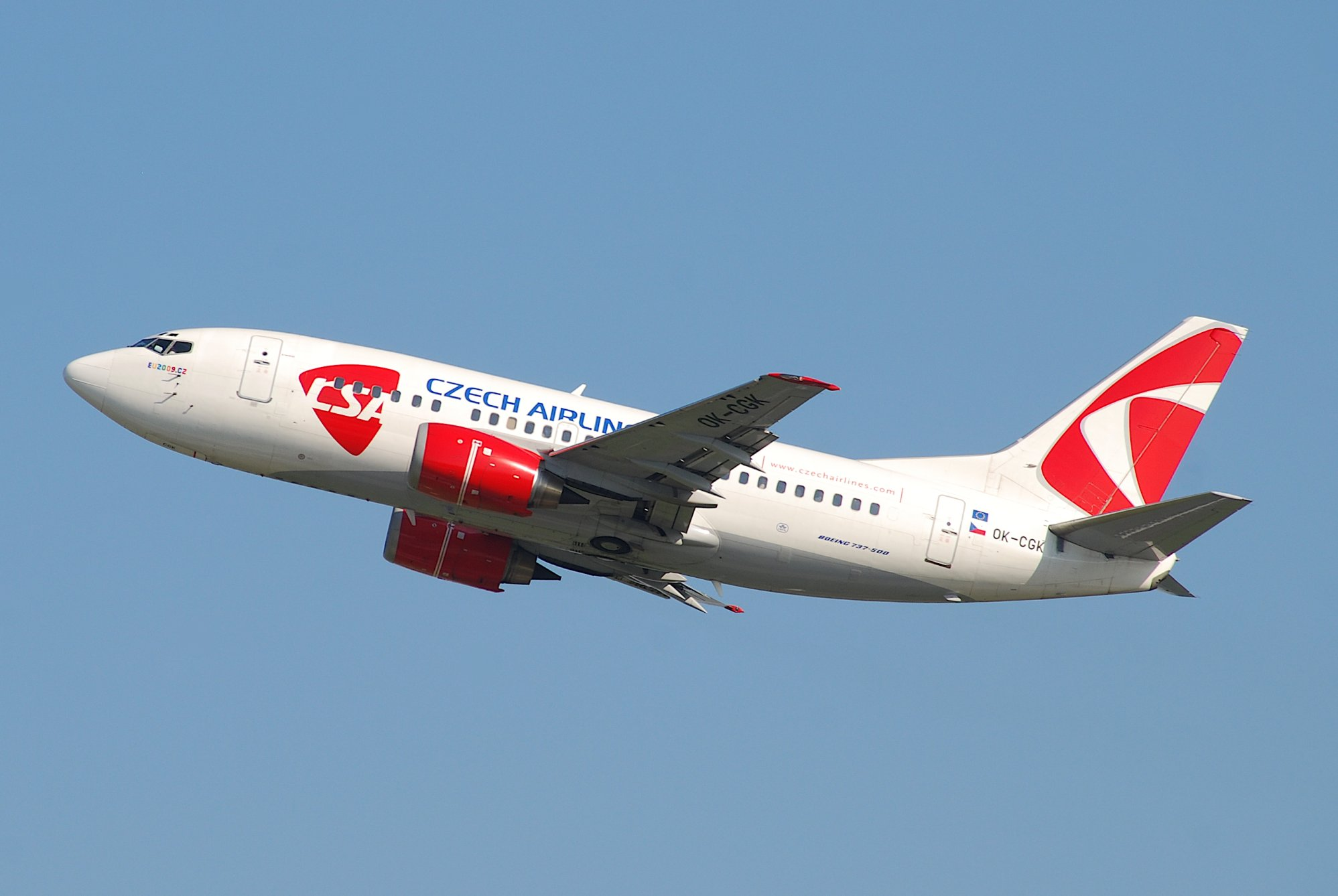 This Boeing 737-55S took its first flight on May 3, 1997...(c/n 28471/ 2885) 23/05/1997 CSA OK-CGK stored 09/2011 02/09/2011 ArmAvia EK-73771 20/09/2011 Slovakian Airlines OM-BTS